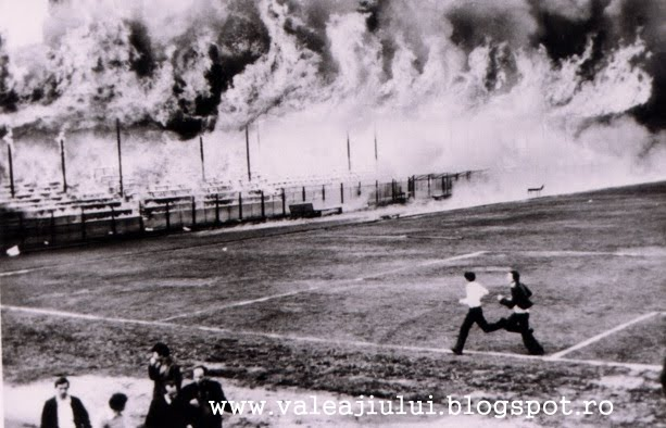 Fire that destroyed old Jiul Stadium on 25 May 1975.